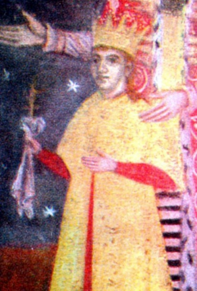 Nicolae Patrascu, prince of Wallachia, son of Michael the Brave (Mihail II of Wallachia)